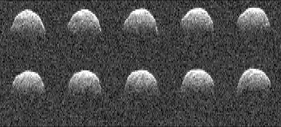 These series of radar images of asteroid 1999 RQ36 were obtained by NASA's Deep Space Network antenna in Goldstone, Calif. on Sept 23, 1999. NASA detects, tracks and characterizes asteroids and comets passing close to Earth using both ground- and space-based telescopes. The Near-Earth Object Observations Program at NASA's Jet Propulsion Laboratory in Pasadena, Calif., commonly called "Spaceguard," discovers these objects, characterizes some of them, and plots their orbits to determine if any could be potentially hazardous to our planet. JPL manages the Near-Earth Object Program Office for NASA's Science Mission Directorate in Washington.